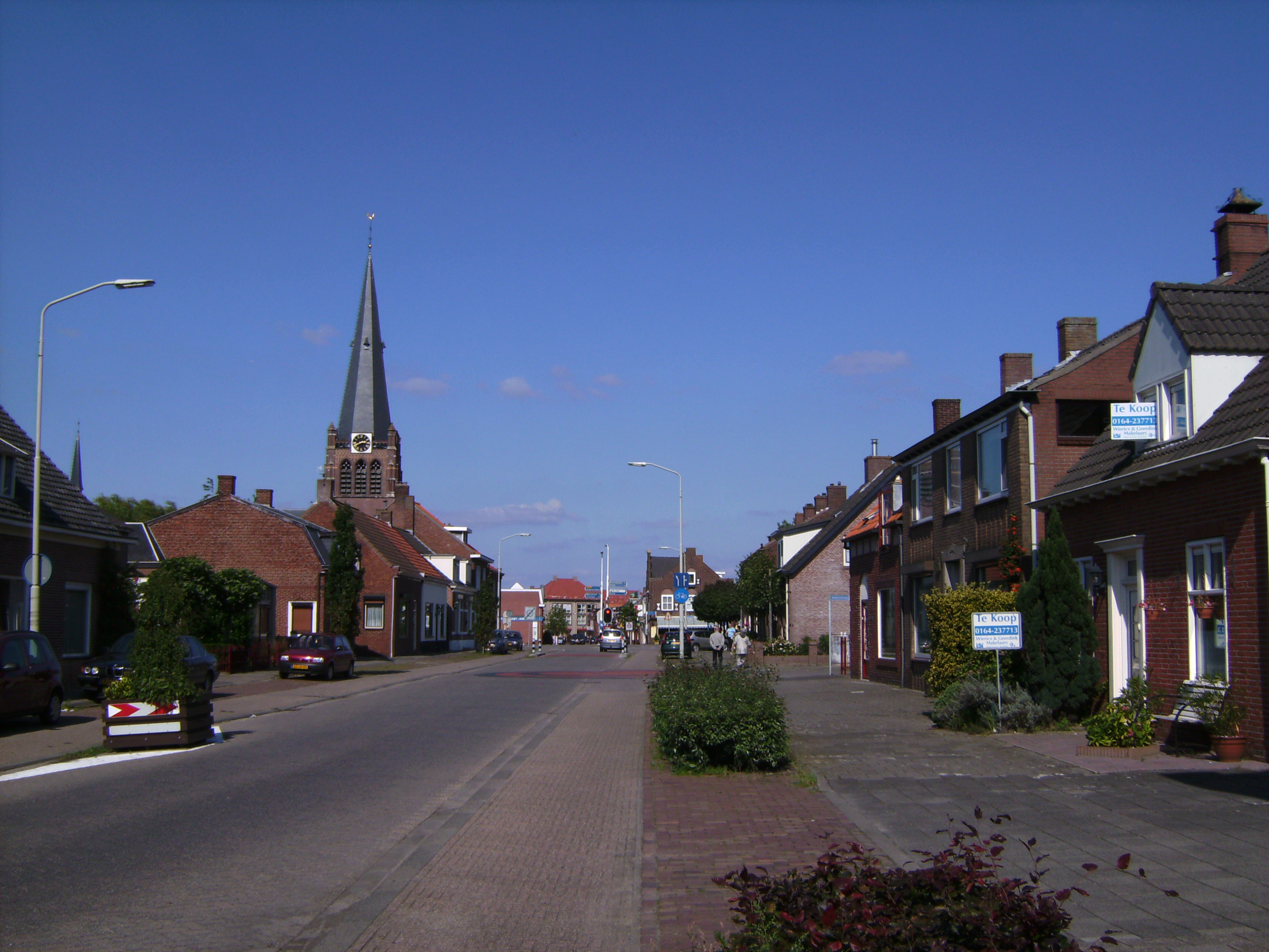 Hoogerheide, church in street